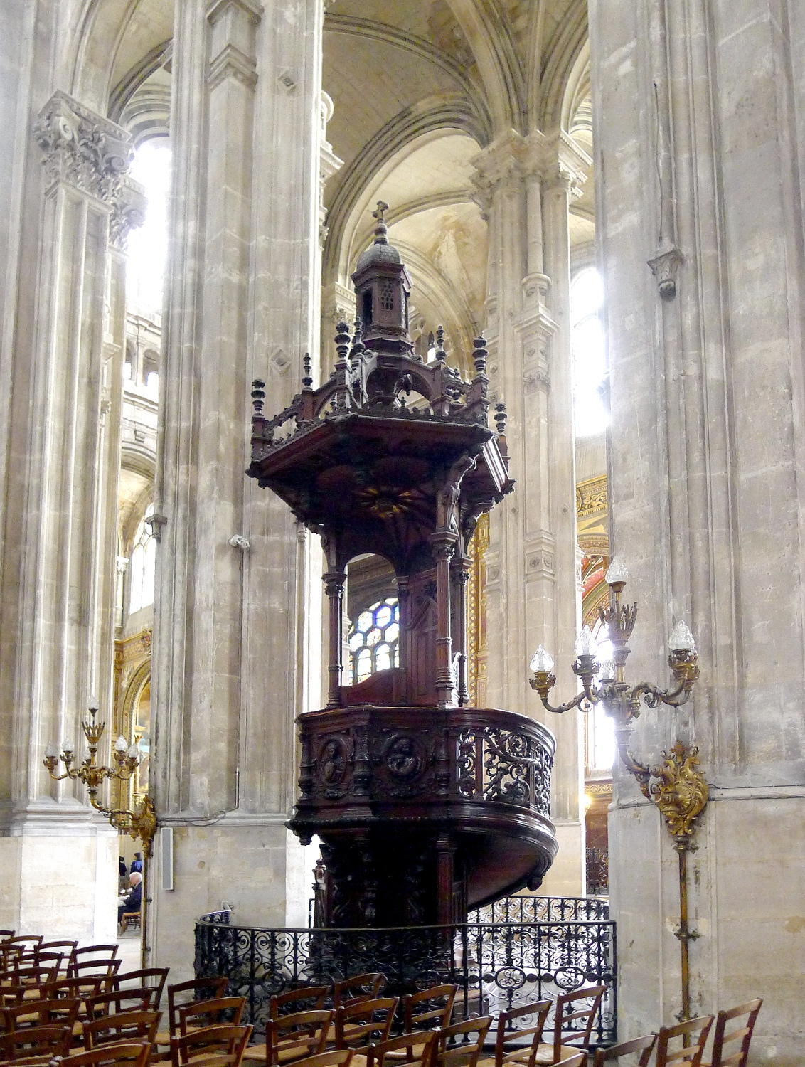 Saint-Eustache church - Paris